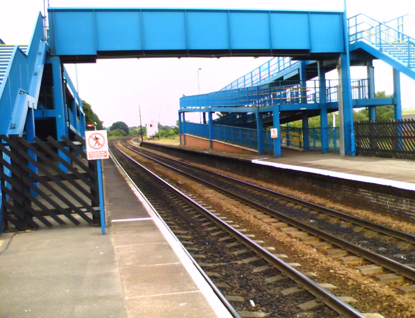 Barnetby railway station. Photo by E Asterion u talking to me?